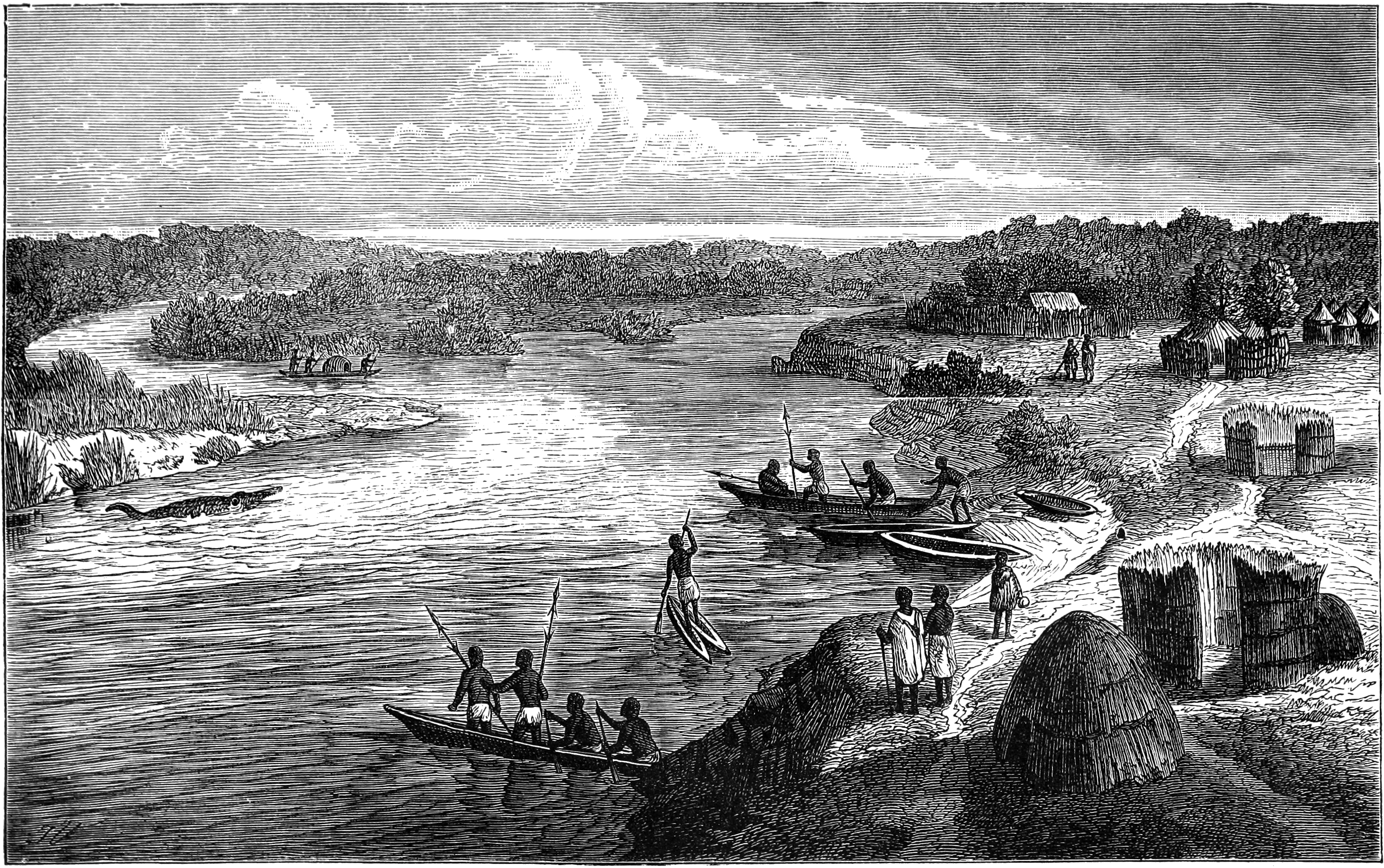 Port of Sesheke, from the book Seven Years in South Africa, volume 2, page 140